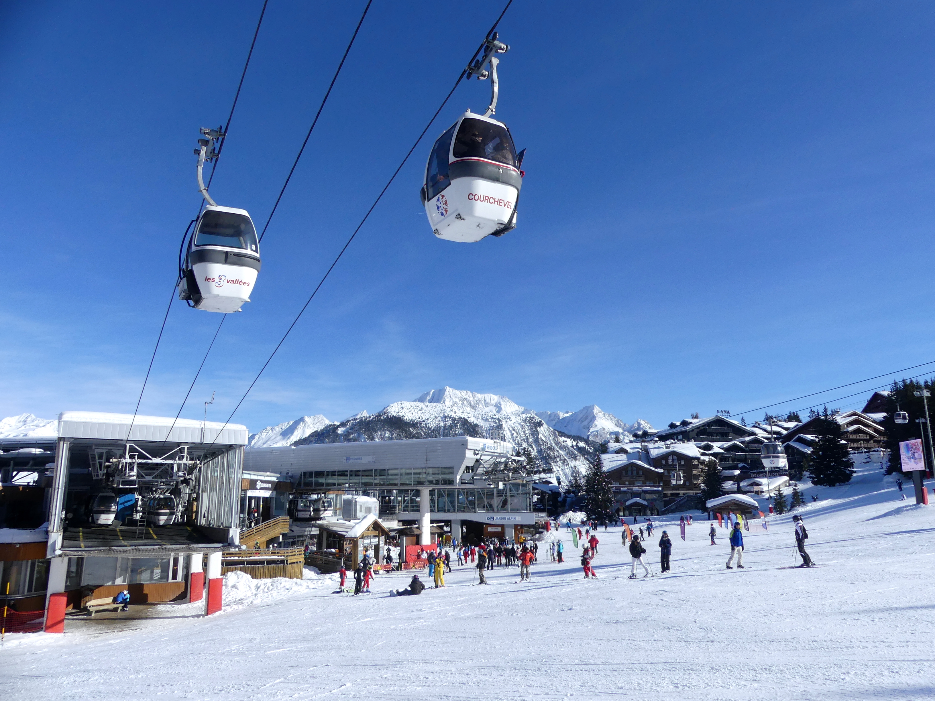 Sight of Courchevel 1850 snow front and Chenus gondola lift, in Savoie, France.